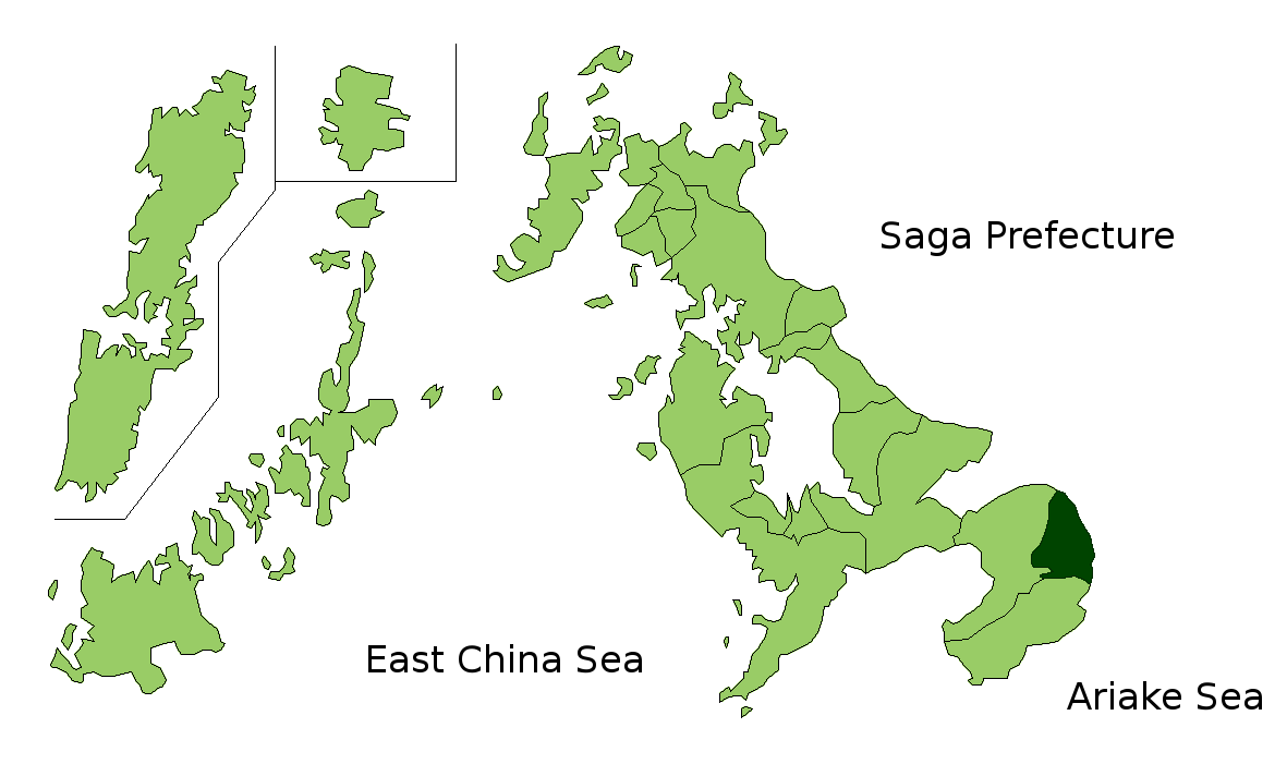 Map of Nagasaki Prefecture highlighting Shimabara city. Borders of map as of July, 2006. (blank map used from [1]) See also Image:NagasakiMapCurrent.png.